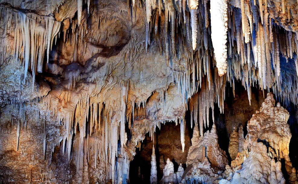 Amjak Cave near Ahmad-Abad Village and south-west of Tafresh City in Tafresh County, Markazi Province of Iran.